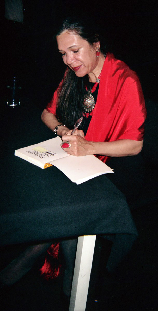 Ana-Castillo signing a copy of The Massacre of the Dreamers after a lecture at Campbell Hall on the campus of the University of California, Santa Barbara, May 25, 2006.